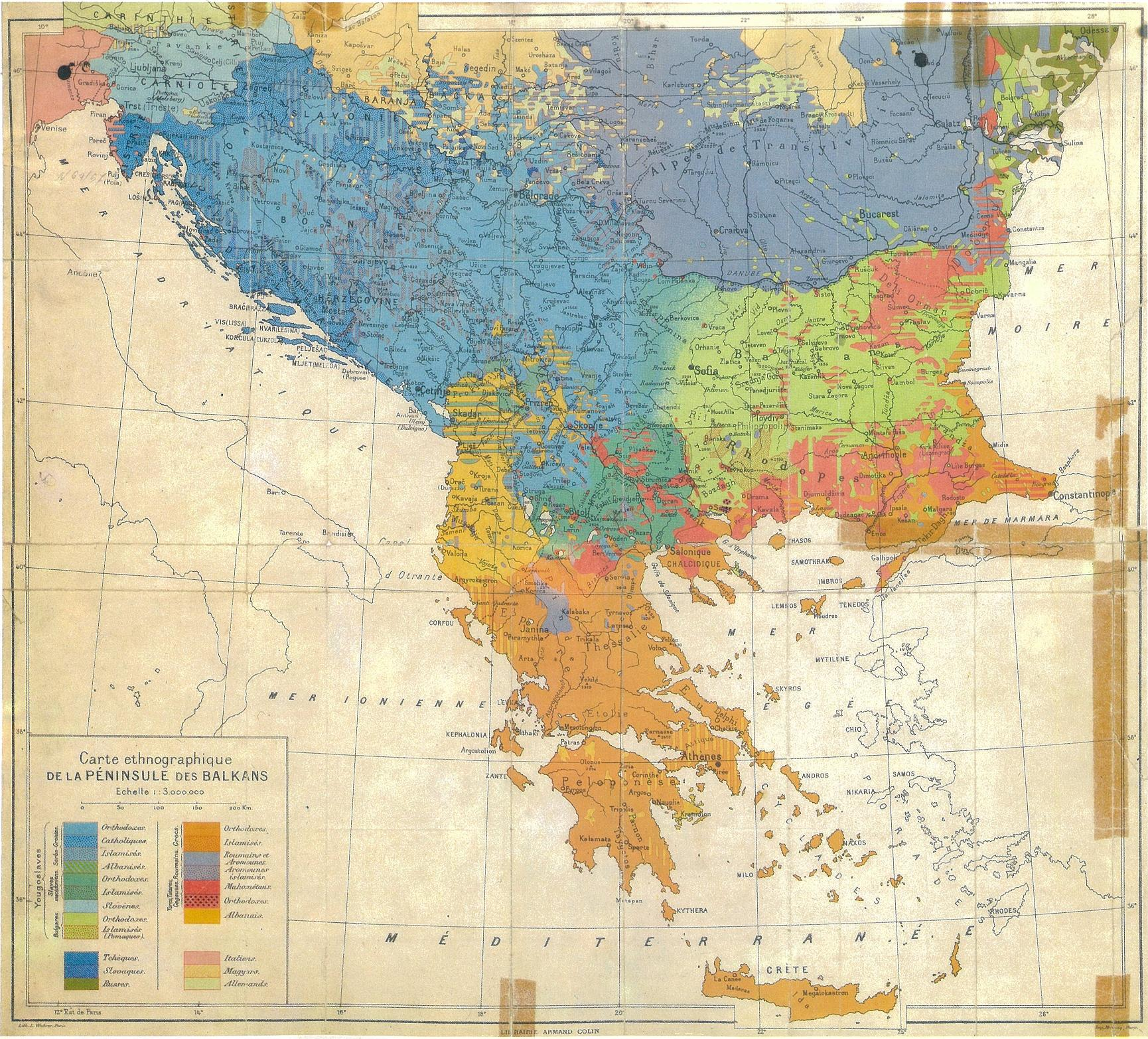 Ethnic composition in Balkan and Macedonia in xx c